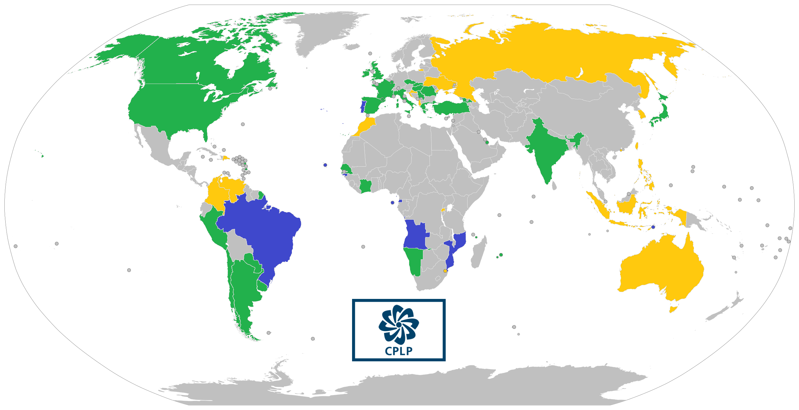 CPLP Member States. CPLP Associate Observers. Officially-Interested Countries & Territories.